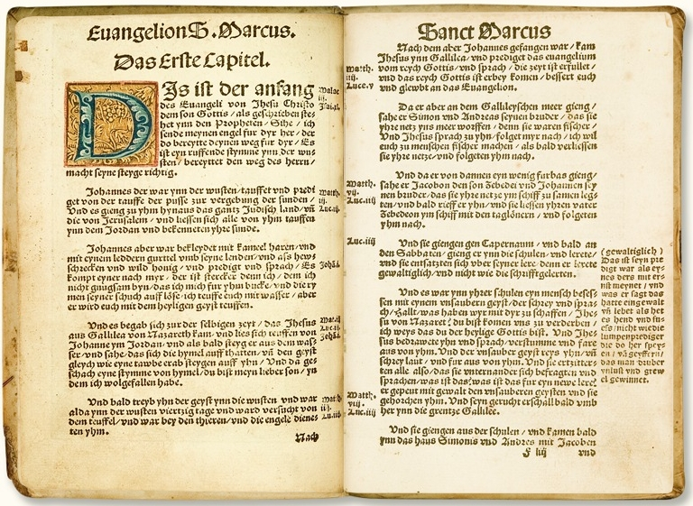 Luther bible double page b.